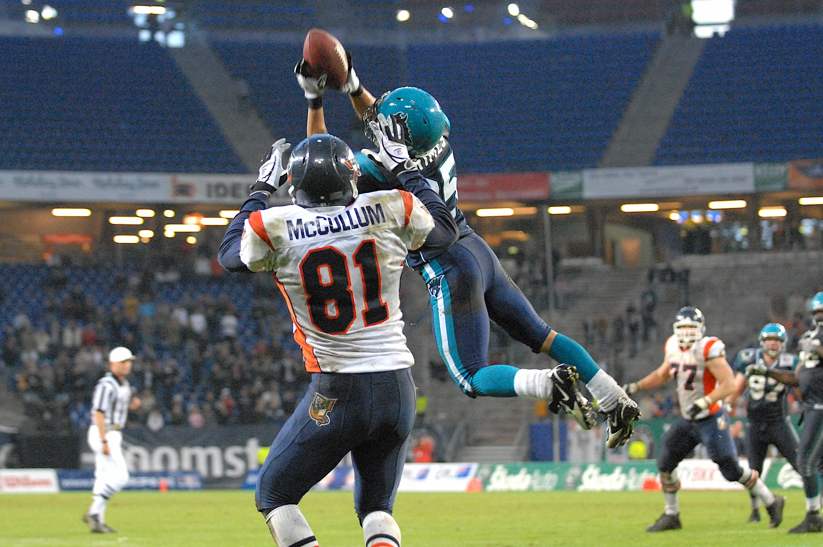 Cornerback Brent Grimes of the Hamburg Sea Devils intercepting a ball against the Amsterdam Admirals